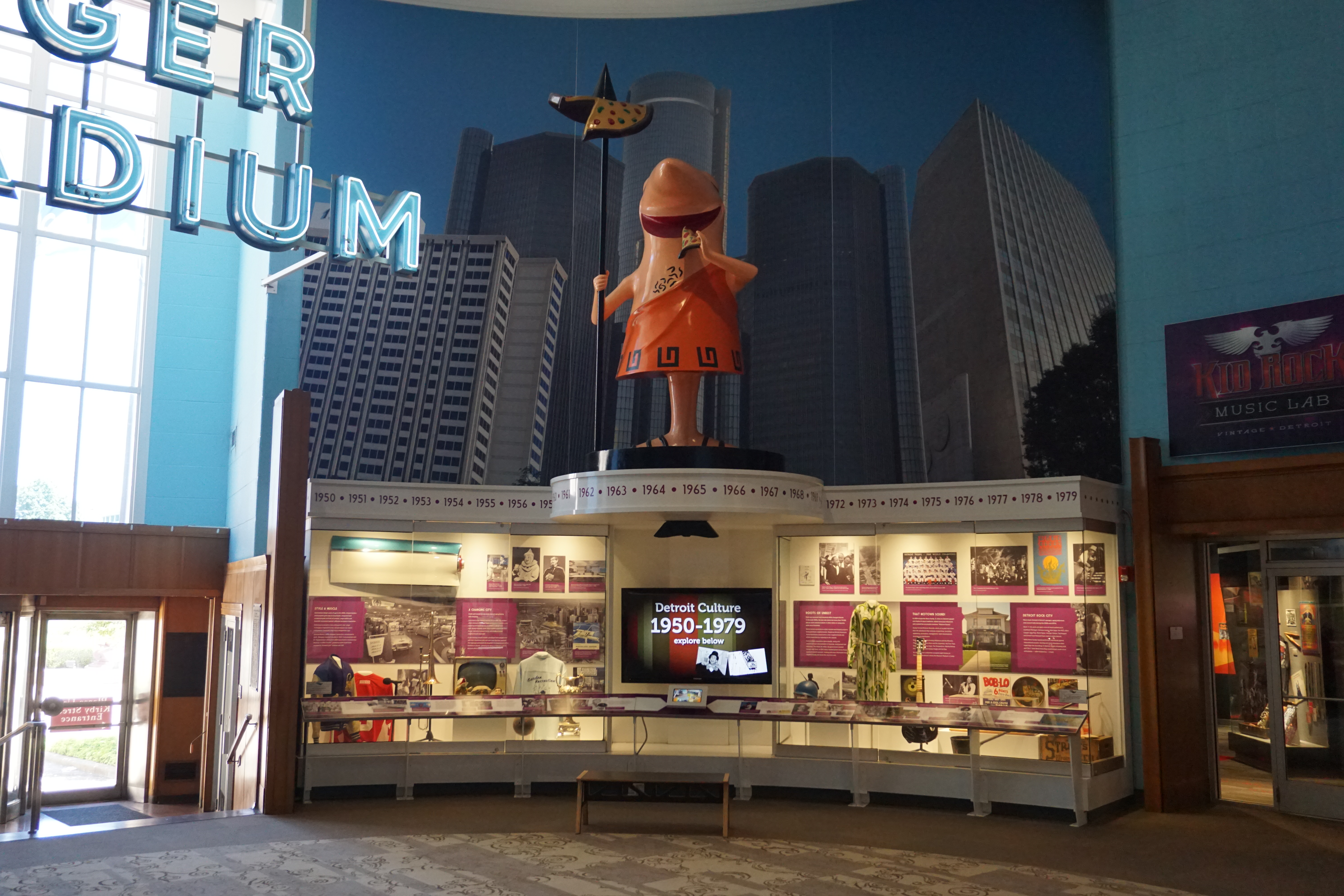 The Allesee Gallery of Culture: 1950-1979 exhibit at the Detroit Historical Museum in Detroit, Michigan (United States).